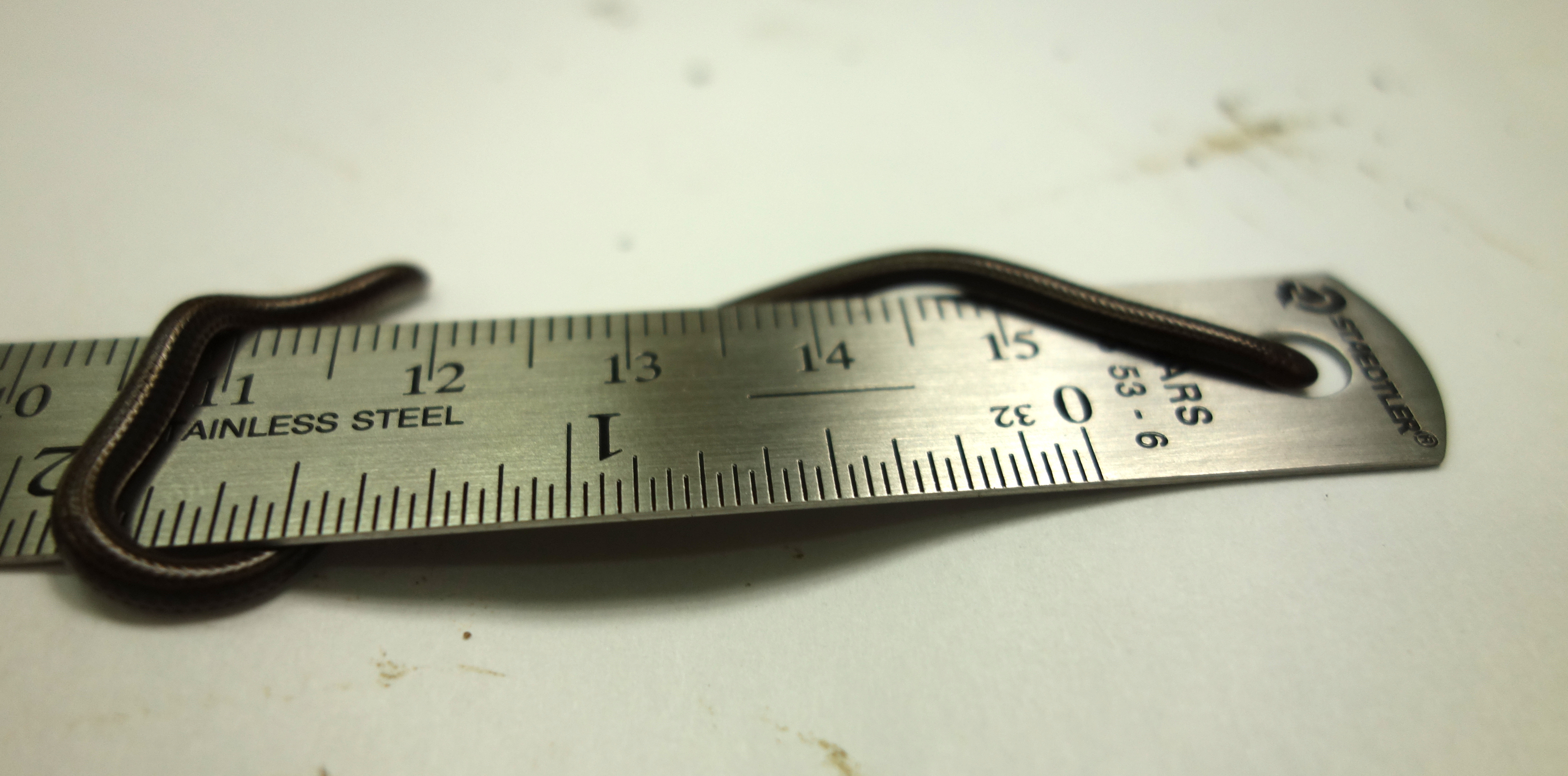 This is an individual of the smallest snake species in the world, the Barbados threadsnake (Tetracheilostoma carlae, or, prior to 2009, Leptotyphlops carlae). It was found, along with two other individuals, in the backyard of St-Nicholas Abbey, in Barbados. Identification of Tetracheilostoma carlae is difficult, especially since a recently introduced invasive species was introduced on the island of Barbados, is very similar looking to T. carlae, and seems to be much more common. The above specimen was identified (with the aid of supplemental pictures) by the biologist who initially described the species (Blair Hedges, through personal communication). Here are the snake's specifications: Total length: 99 mm Head width: 4.5 mm Midbody width: 4.0 mm The snake was caught in the backyard of St-Nicholas Abbey, St-Peter's, Barbados at 12:50 EDT on 16 May 2013 and released at 15:00 EDT on 20 May 2013 at the exact location of capture. We could not feed the snake during the holding times because it has a narrow diet (ant larvae and termites). It looked just fine at the time of release. The snake escaped its box into the laboratory somewhere between 15:00 and 20:00 EDT, 16 May 2013. It was found in the same laboratory between 14:00 and 17:00 EDT, 17 May 2013. On 19 May 2013, we found two extra snakes at the same location. I thank Larry Warren, owner of the St-Nicholas Abbey (a heritage house and rum distillery), for letting us freely sample on the house's property, and Dr. Blair Hedges of Pennsylvania State University for identifying the snake. The coordinates below point to the location at which I found the snake, not that of the laboratory in which I took the picture.